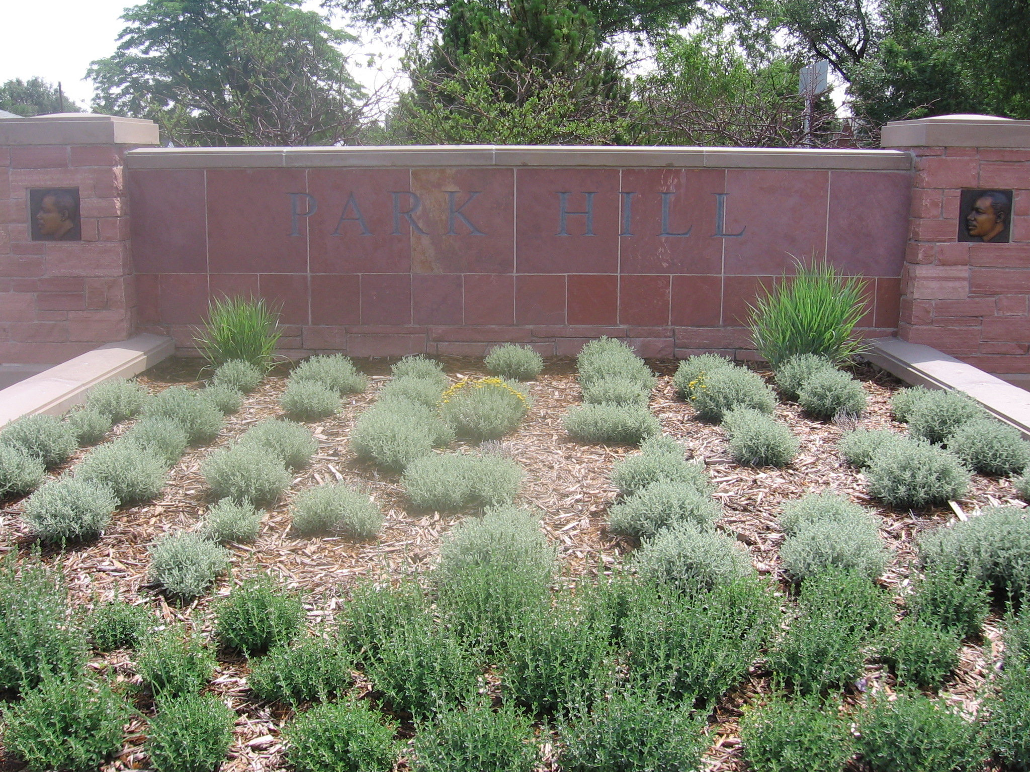 Sign at a northwest entrance to Park Hill neighborhood, Denver, Colorado